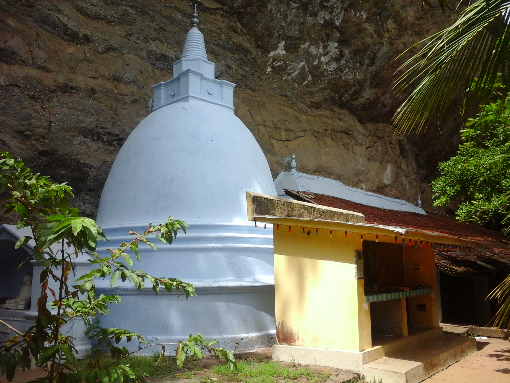 Pagoda at Paramakanda Raja Maha Vihara